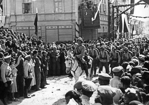 Bulgarian army in Southern Dobrudzha after the Treaty of Craiova (1940).